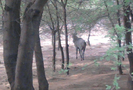 In this photo you can see Rojh (Neelgaye) a wild animal in northern western Rajasthan.